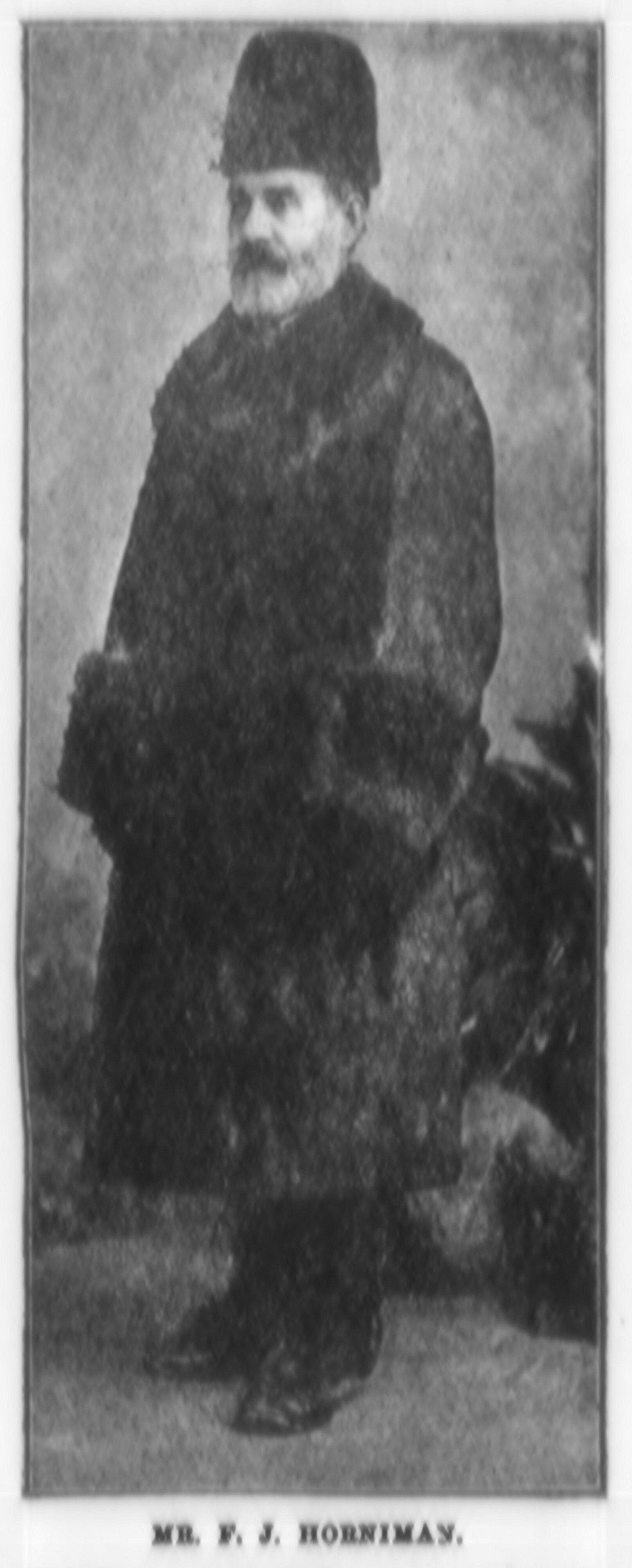 Frederick John Horniman (8 October 1835 – 5 March 1906) was an English tea trader, collector and public benefactor.